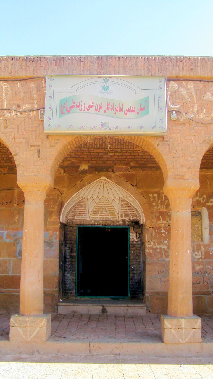 Tomb of Own Ibn Ali, Tabriz